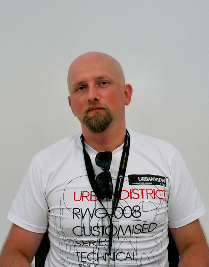 Robert M. Wegner, Polcon 2011